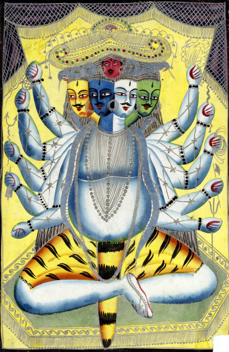 Shiva Panchanana, Kalighat painting